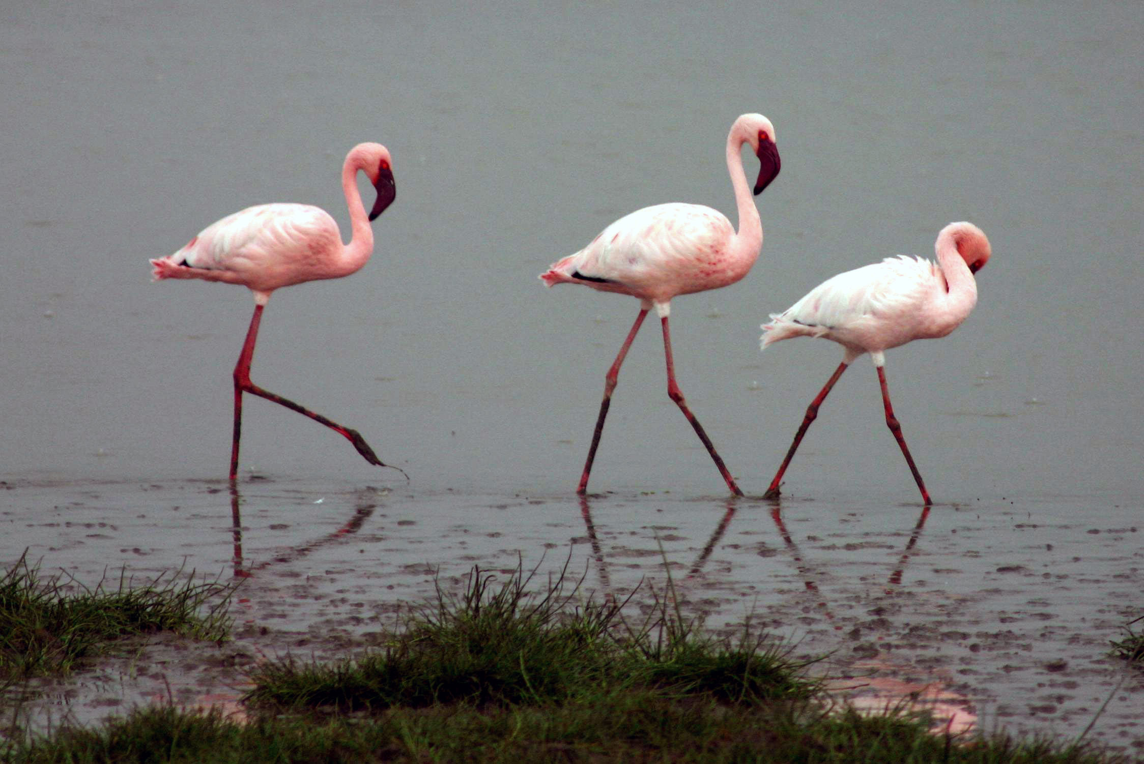 Lesser Flamingos in the Ngorongoro Crater, Tanzania. Taken with Canon EOS with 300mm zoom lens.